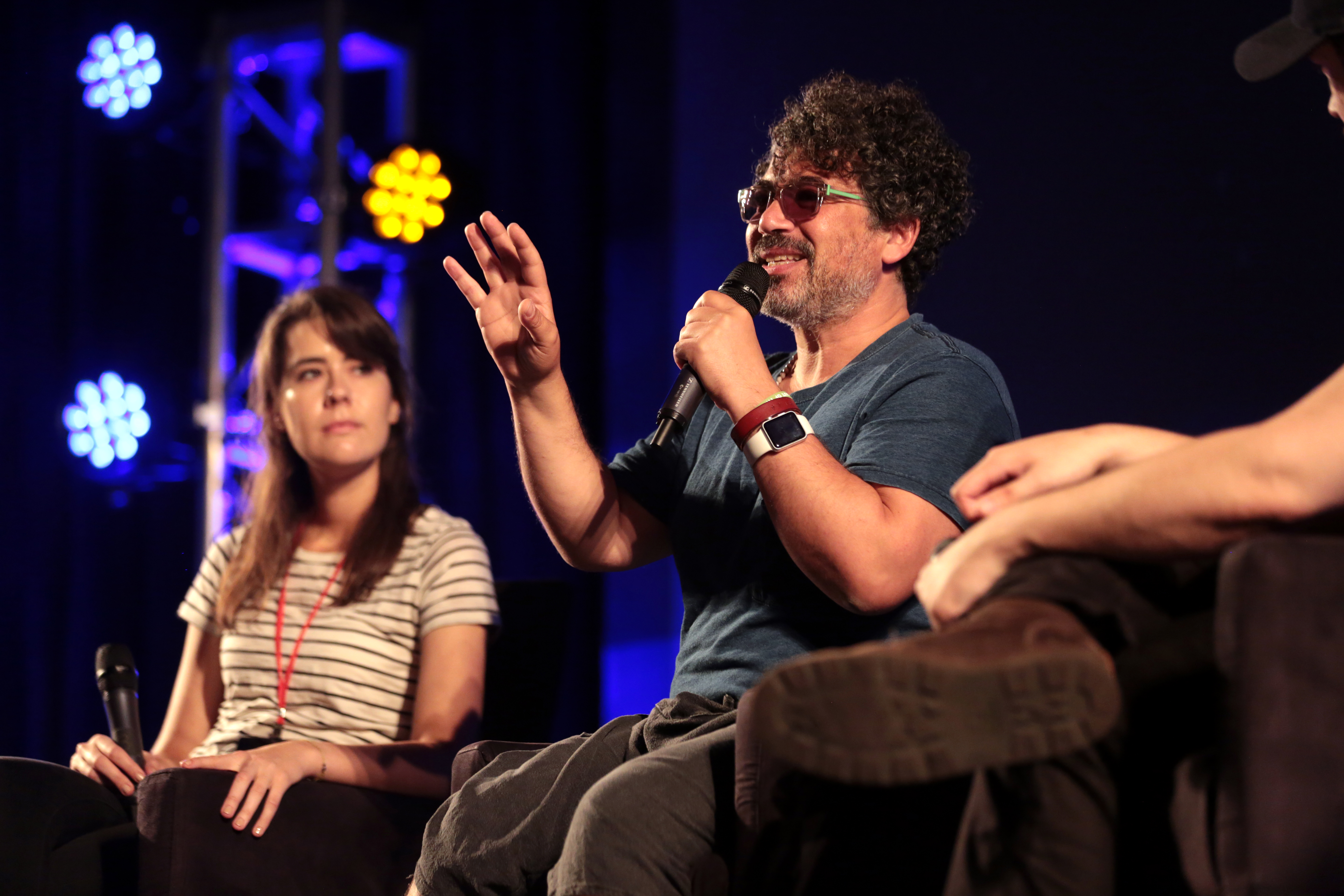 Miltos Yerolemou speaking at an event in Nashville, Tennessee.